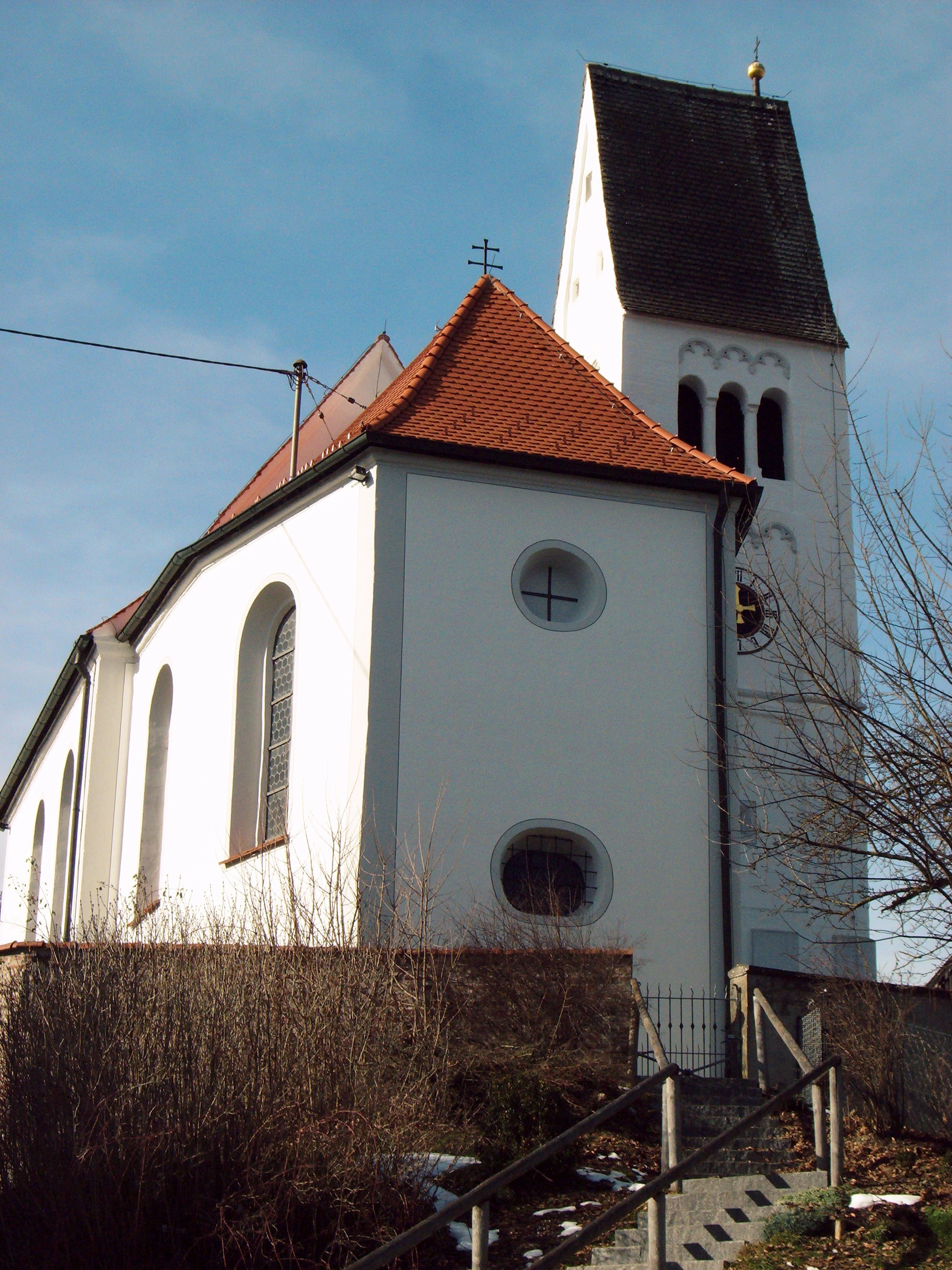 Welden (Fuchstal), exterior view of St Stephen's Subsidiary Church from north-east.